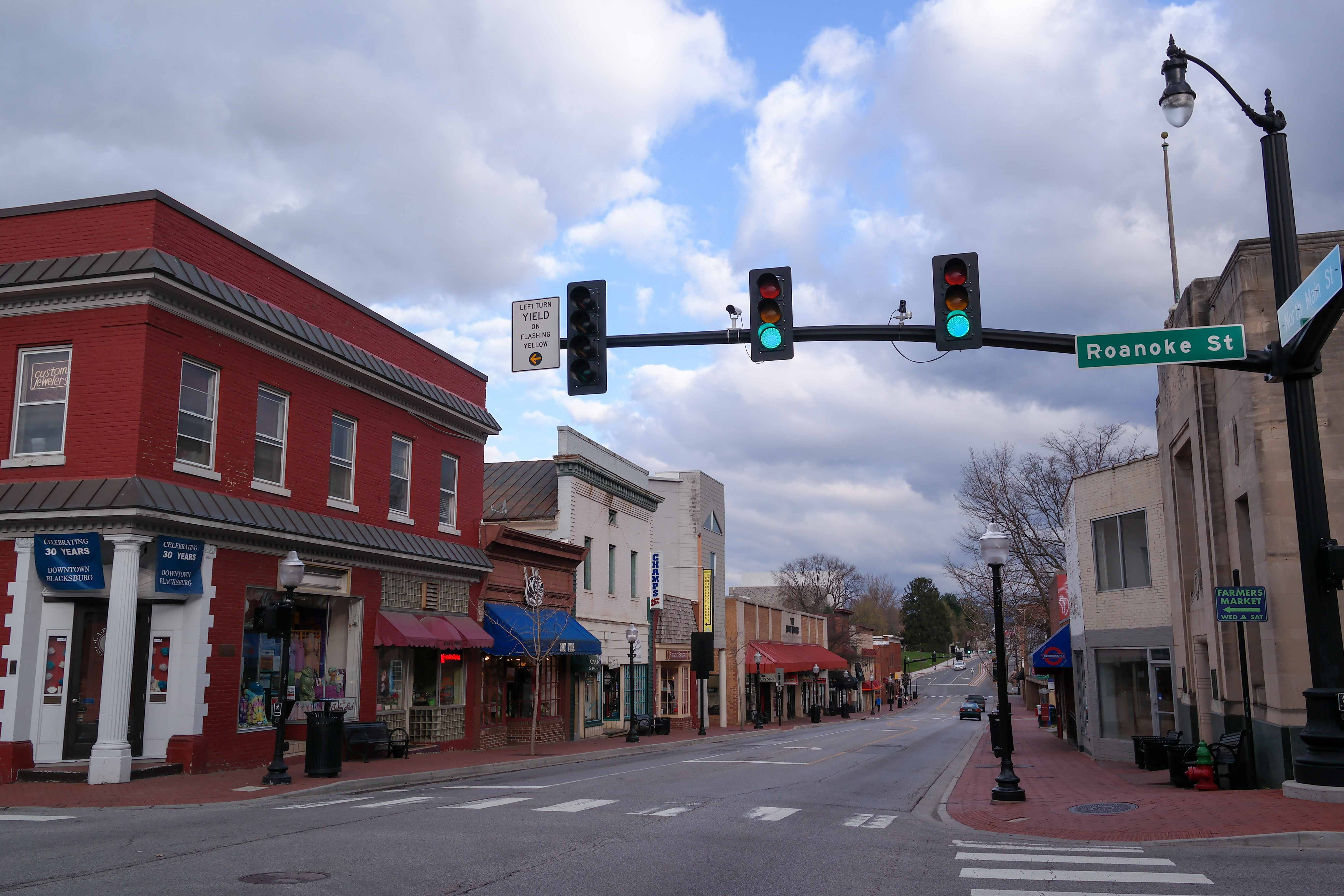 A view of Blacksburg, Virginia